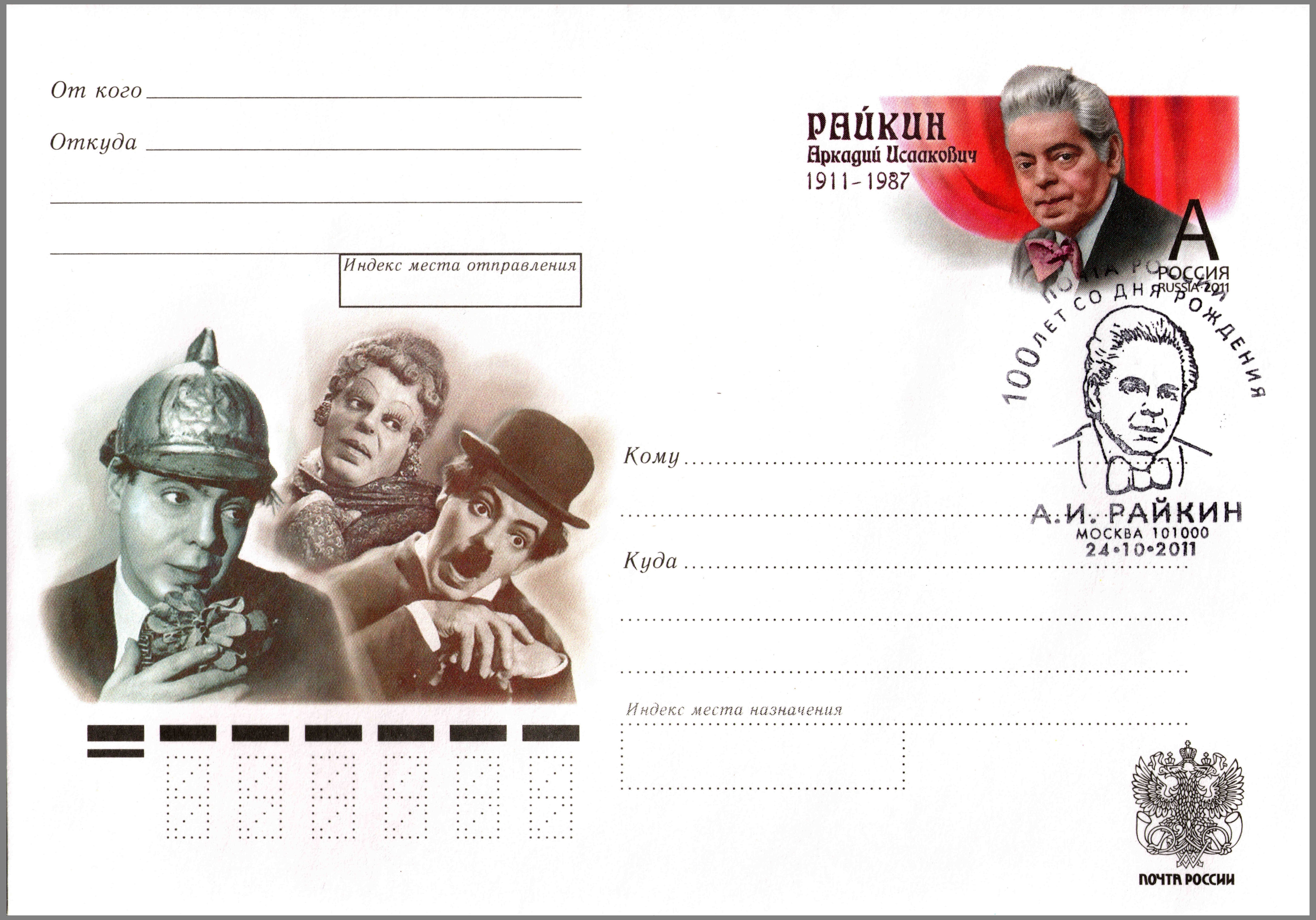 100th birth anniversary of the Soviet variety and theatre actor Arkady Raikin (1911–1987). The illustrated postal stationery envelope with the commemorative stamp, Russia, 24 October 2011, PTC Marka Catalogue No 216/кор-11.The commemorative non-denominated stamp "Letter A" (for domestic letters, weight 20g or less): the portrait of Arkady Raikin, 1980s.The illustration: the roles of Arkady Raikin (from left to right): Foreigner, Agnessa Pavlovna, Charlie Chaplin.The special cancellation: Moscow, 24 October 2011, PTC Marka Catalogue No 244ш-2011.